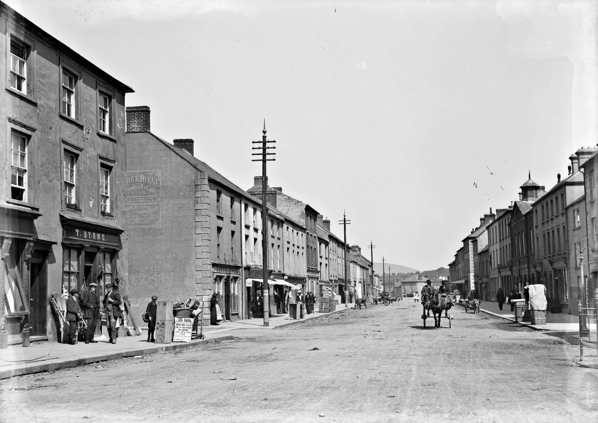 We travel someway south of Newry to the town of Gorey today. I love this photograph especially the finials atop the telegraph poles and the fancy bed in the right foreground. Combined with the bed, we have broomsticks outside T Byrne's on the left - making for our first filmic reference: "Bedknobs and Broomsticks". And continuing the movie theme there seems to be a "Man on Ledge" standing entirely outside an upper-floor window of #78 Main Street. With thanks to the Wexford Echo newspaper poster (also outside Byrne's) and investigations by [/photos/gnmcauley/ Niall McAuley] it seems plausible that we're in the middle of the provided catalogue range - possibly the 1920s... Photographer: Unknown Collection: Eason Photographic Collection Date: Between 1900-1939 (possibly 1920s) NLI Ref: EAS_3728 You can also view this image, and many thousands of others, on the NLI’s catalogue at